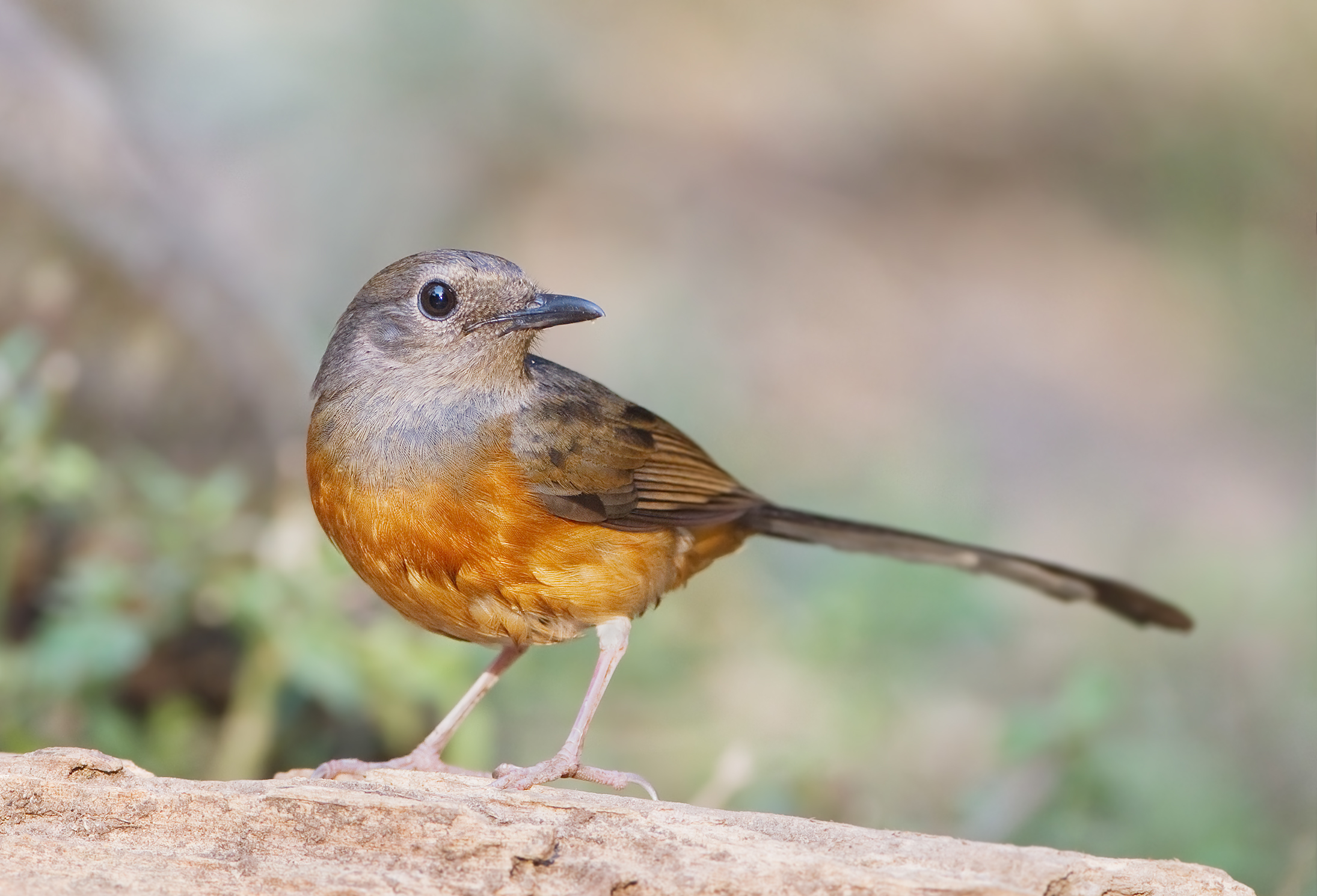 White-rumped Shama Copsychus malabaricus macrourus, female, Khao Yai National Park, Pak Chong, Thailand